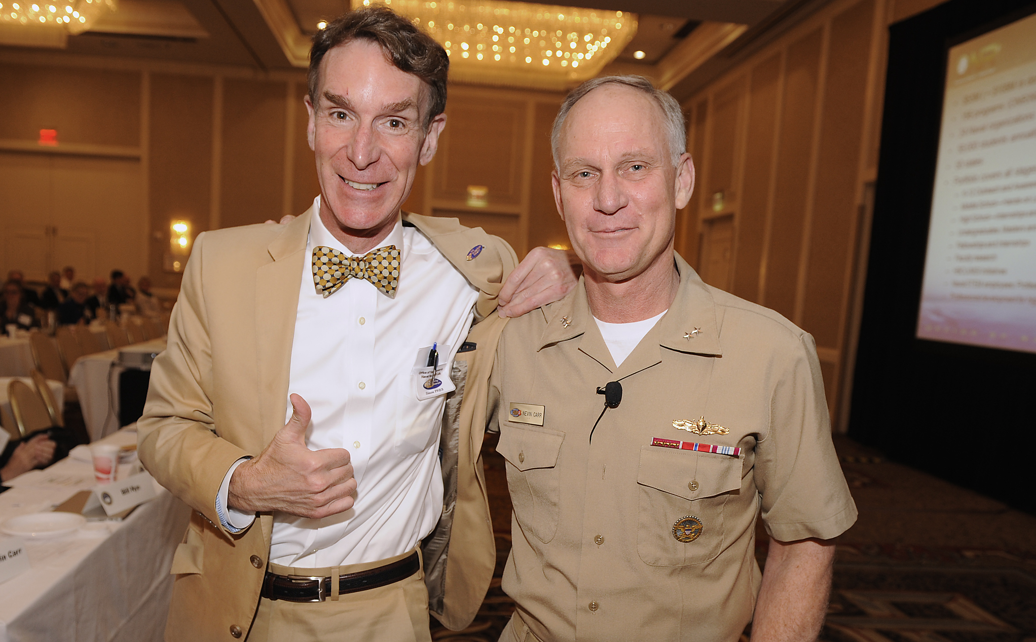 ALEXANDRIA, Va. (May 5, 2011) Bill Nye, left, executive director of The Planetary Society, and science educator, stands with the Chief of Naval Research Rear. Adm. Nevin Carr following the presentation of a powered by Naval Research pocket protector during the Navy Office of General Counsel Spring 2011 Conference. (U.S. Navy photo by John F. Williams/Released)